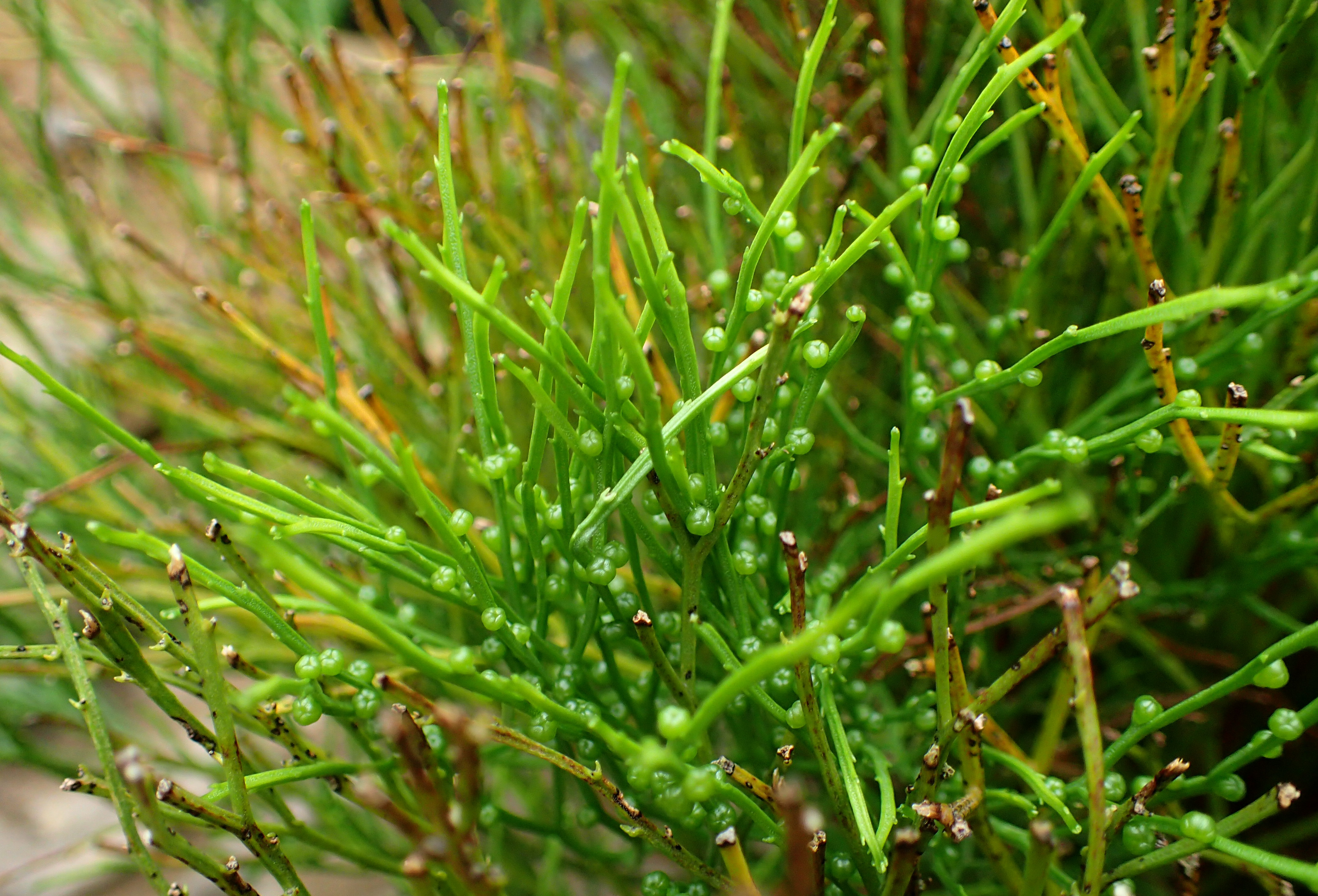 Psilotum nudum in the Brooklyn Botanic Garden